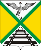 Zabaikalsk (Chita oblast), coat of arms